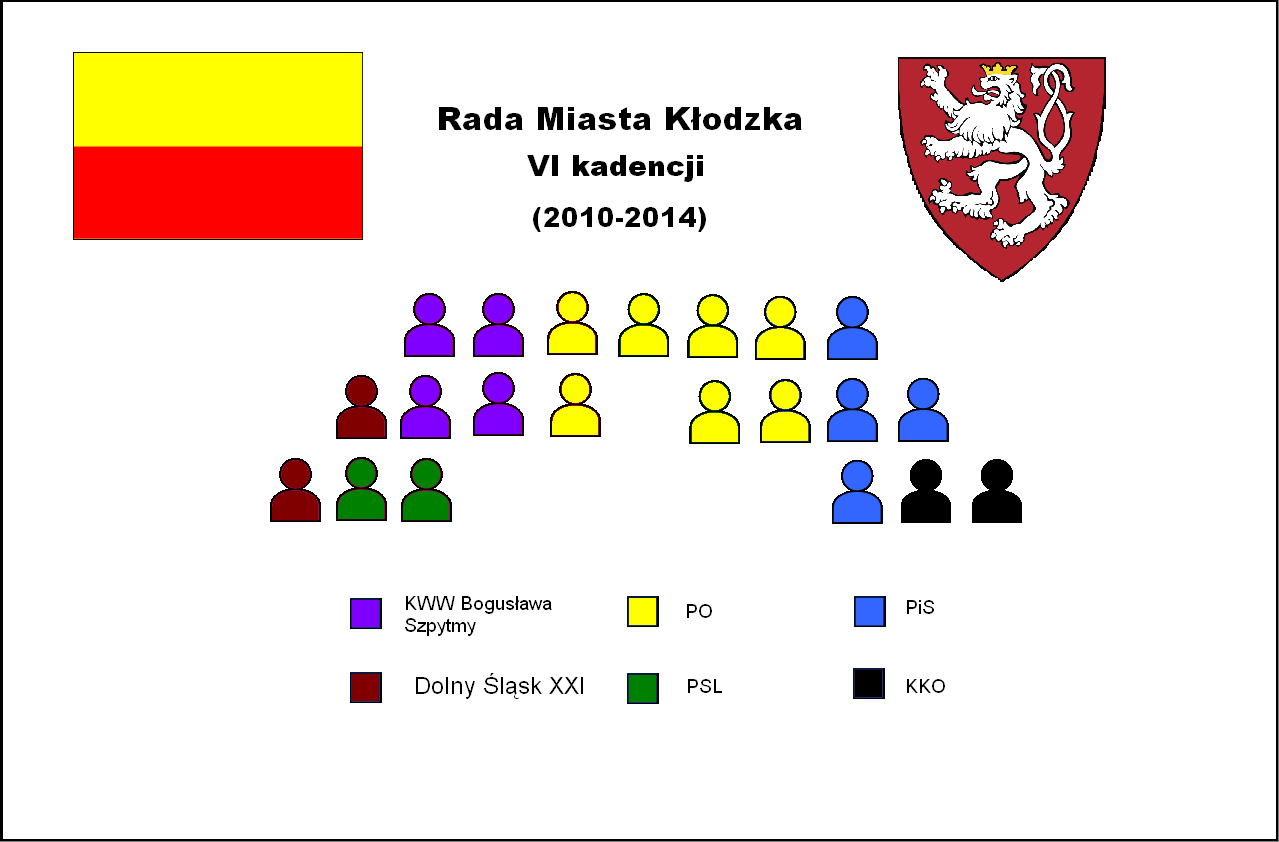 Town Council of Kłodzko Sixth Term (2010-2014) - Plenary Hall